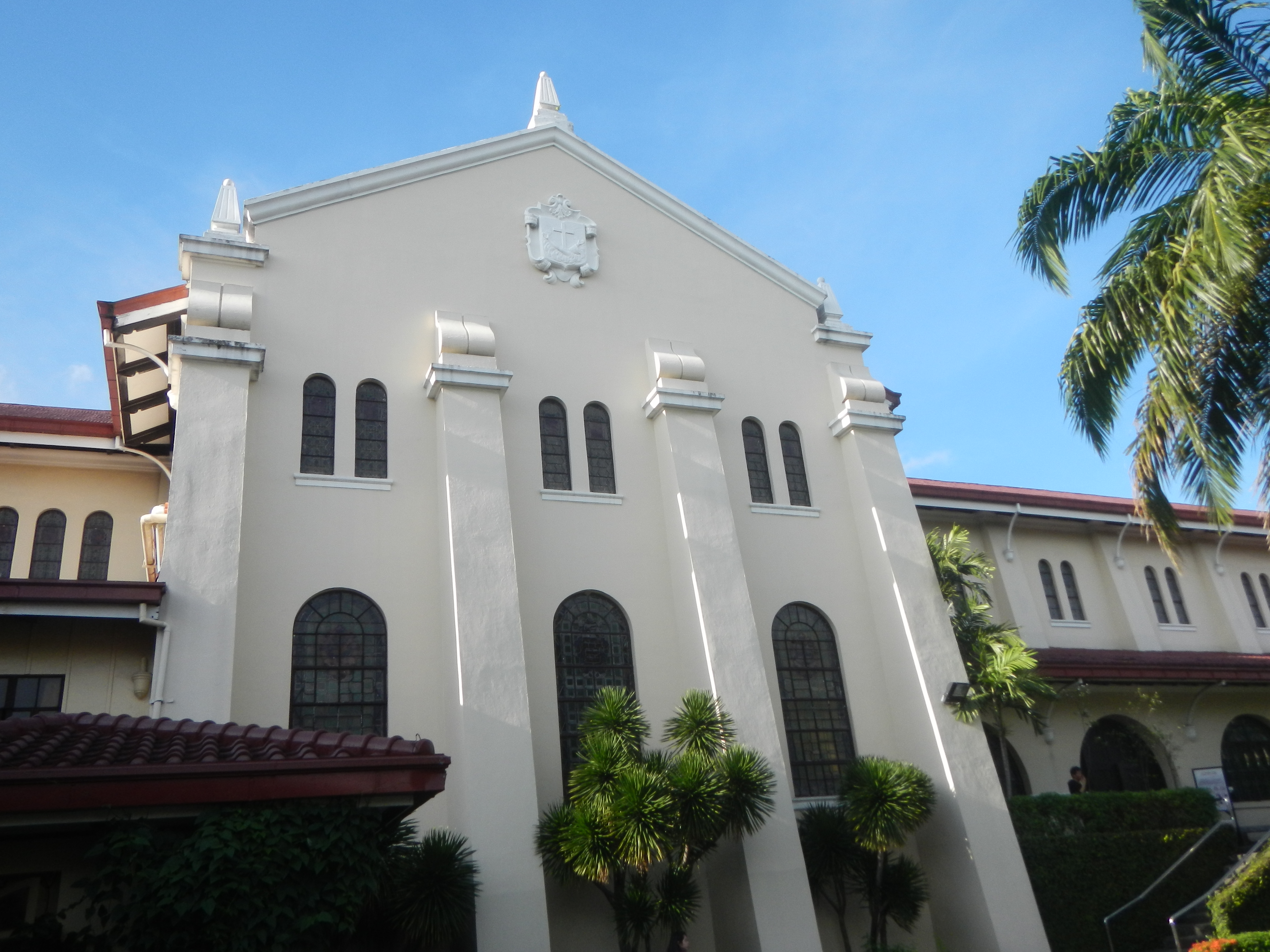 List of Roman Catholic churches in Metro Manila Roman Catholic Archdiocese of Manila Santuario de San Antonio Parish Church 14°32'49"N 121°2'1"E Capilla del Señor, Capilla de la Virgen and Capilla de San Francisco McKinley Road Forbes Park, Makati City (Note: Judge Florentino Floro, the owner, to repeat, Donor Florentino Floro of all these photos hereby donate gratuitously, freely and unconditionally all these photos to and for Wikimedia Commons, exclusively, for public use of the public domain, and again without any condition whatsoever).